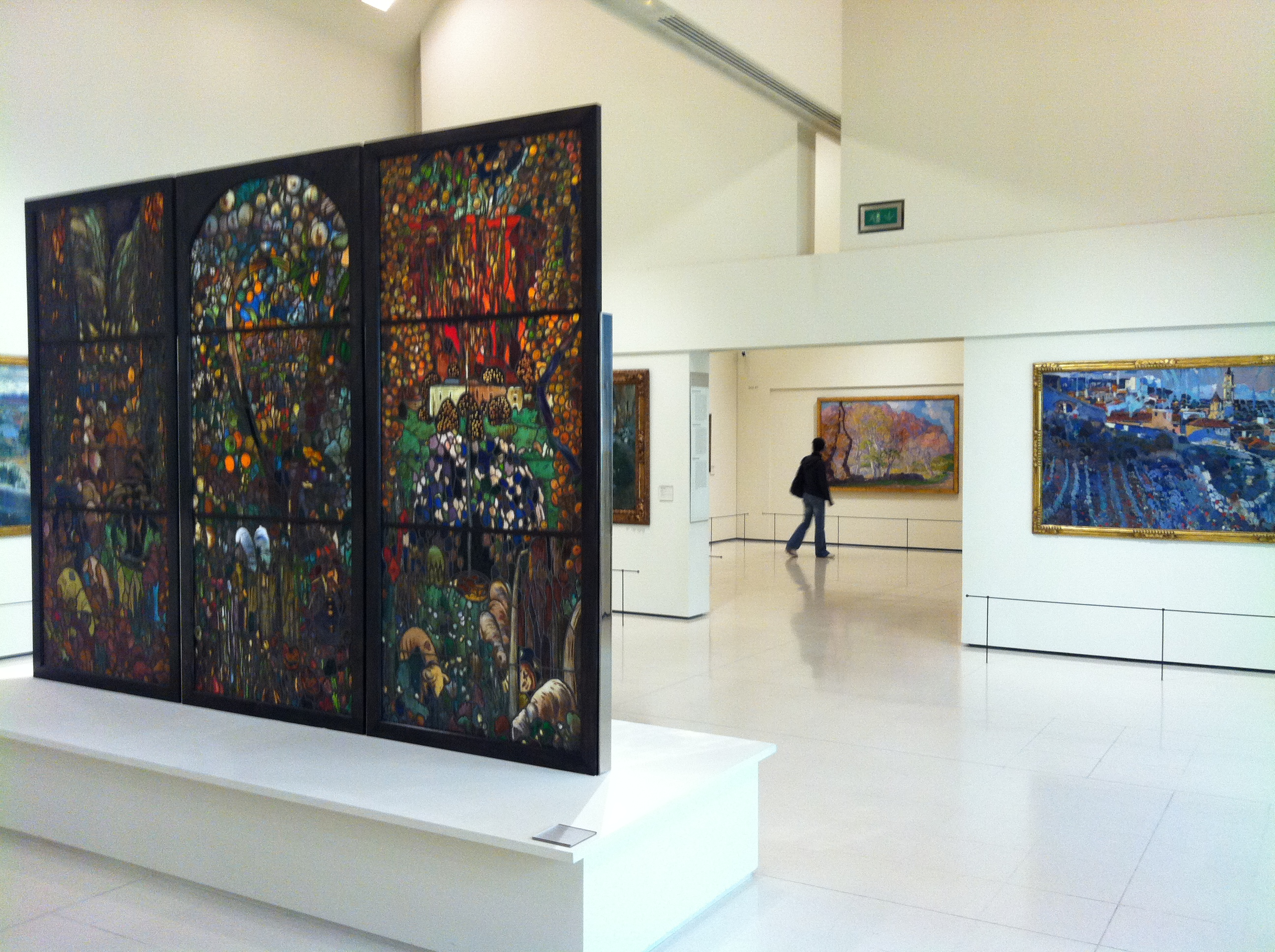 Interior rooms of Museu Nacional d'Art de Catalunya